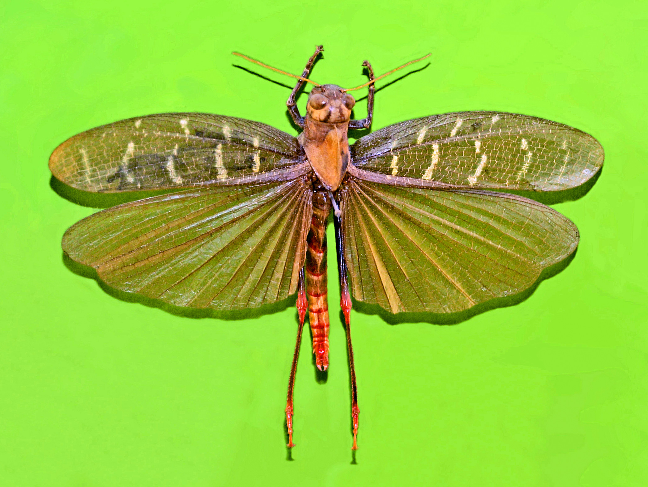 Monachidium lunum. Museum species